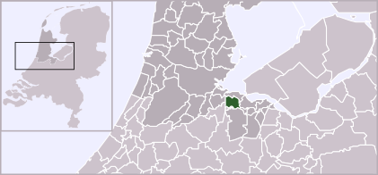 Locator map of Dutch municipalities in Noord-Holland (LocatieWeesp.png)